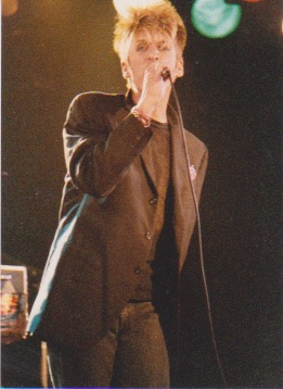 Singer Willie Alexander performing in 1988 at the Channel in Boston, Ma.